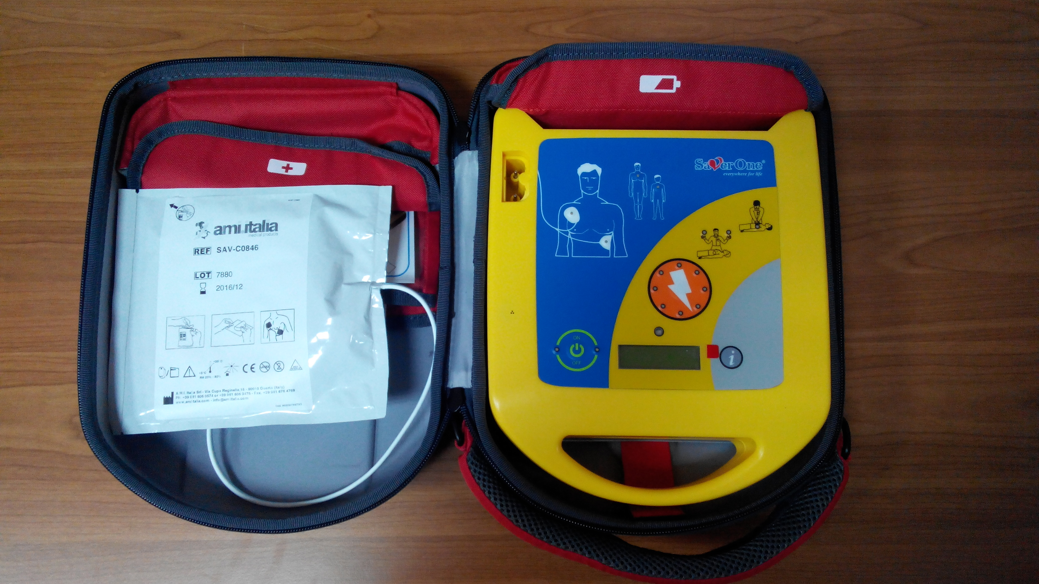 A.M.I. Italia Saver One Automated External Defibrillator (AED), open, charged and ready for use. SEMIAUTOMATIC, Maximum energy at 200J.